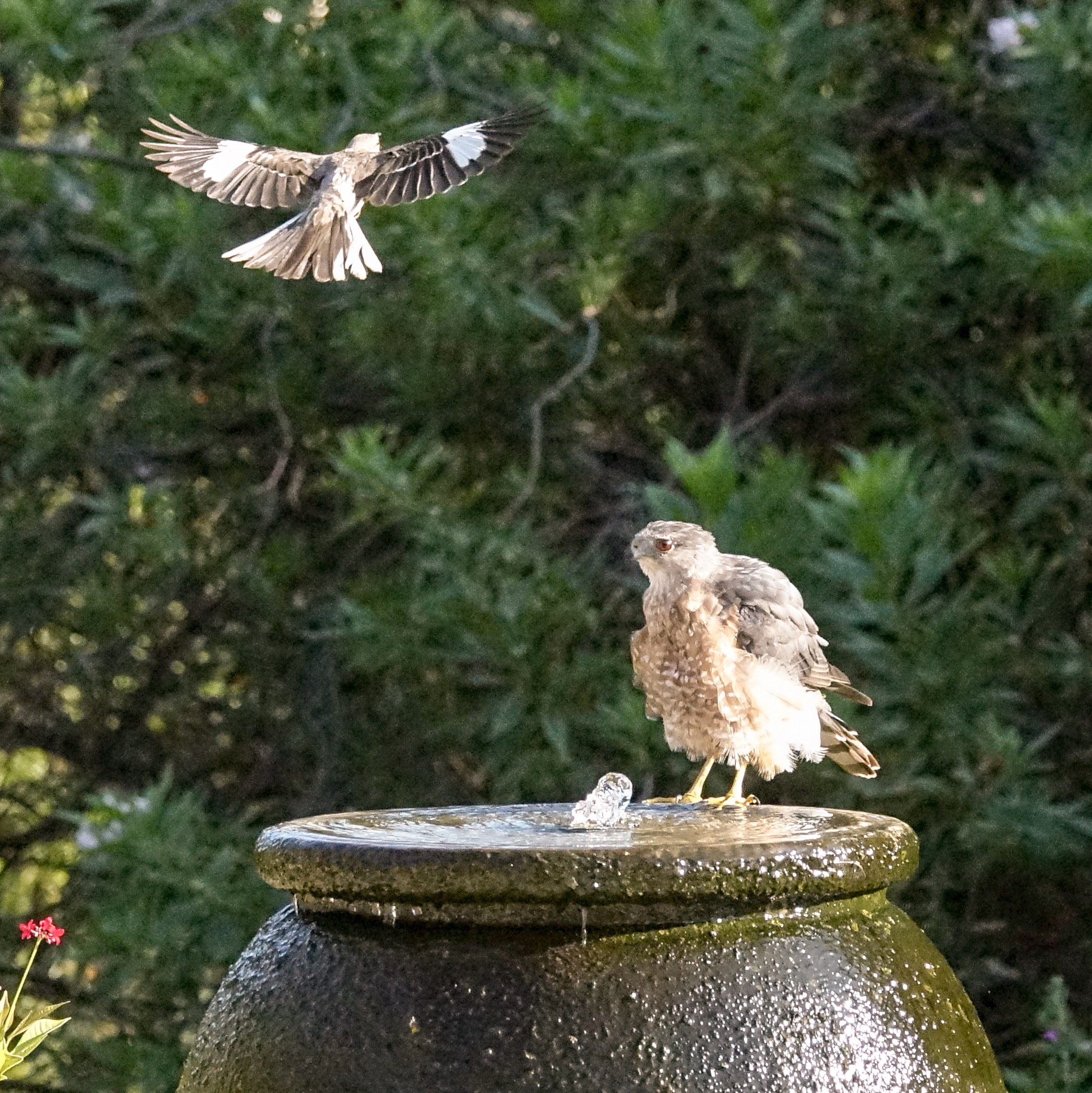 Mockingbird dive bombing Cooper's Hawk